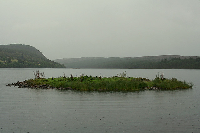 The crannog on Loch Migdale during a shower.